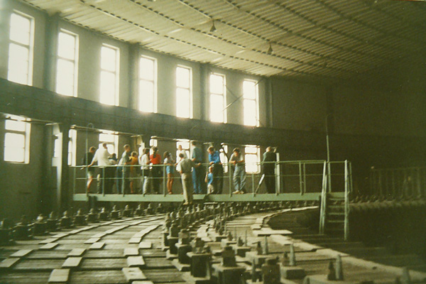 Excursion group above the JINR 10 GeV synchrophasotron magnet yoke.